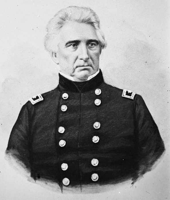 Downloaded from TITLE: Duncan Lamont Clinch (1787 - 1849) CALL NUMBER: LC-B813- 6333 C[P&P] REPRODUCTION NUMBER: LC-DIG-cwpb-06861 (digital file from original neg.) RIGHTS INFORMATION: No known restrictions on publication. MEDIUM: 1 negative : glass, wet collodion. CREATED/PUBLISHED: [between 1860 and 1870] NOTES: Title from unverified information on negative sleeve. Forms part of Civil War glass negative collection (Library of Congress).